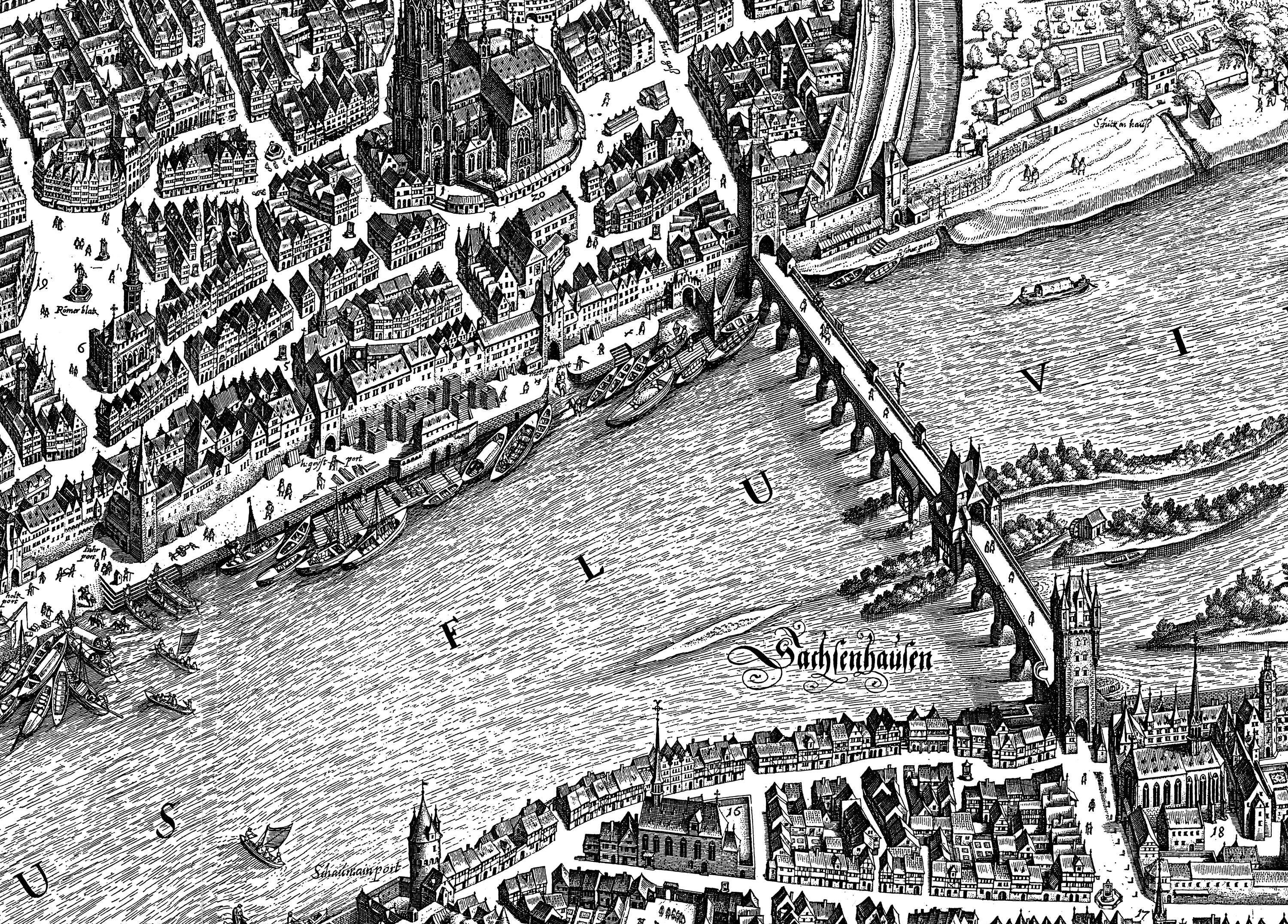 Frankfurt on the Main: detail of Merian's plan with the Alte Bruecke (old bridge) and the Dreikoenigskirche (church of the three magi)